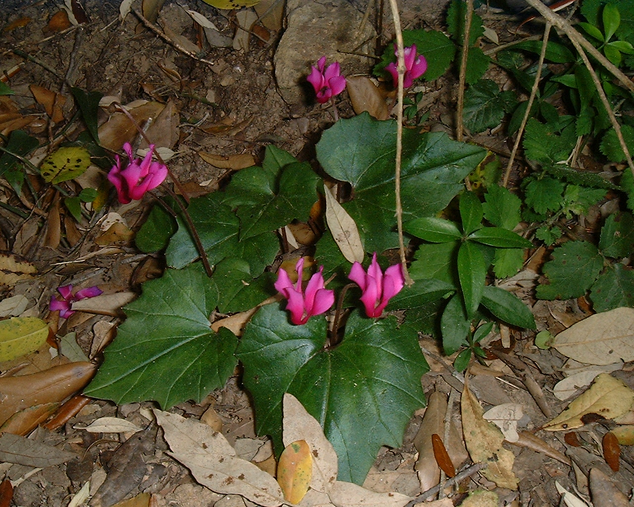 please help to categorize- respect the stress wilderness italy